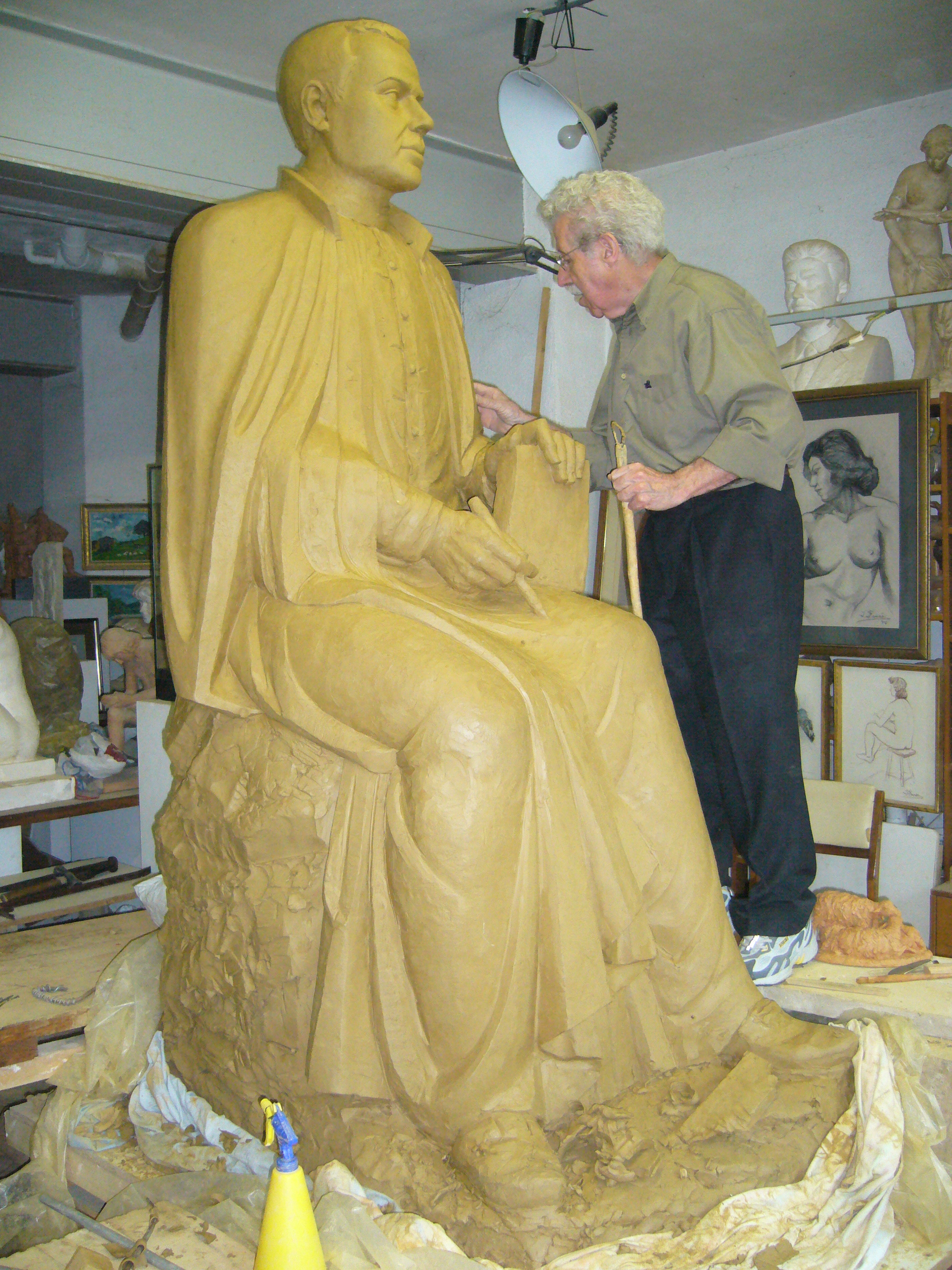 Joan Ferrés (Olot): Modelling figure of Verdaguer in his atelier